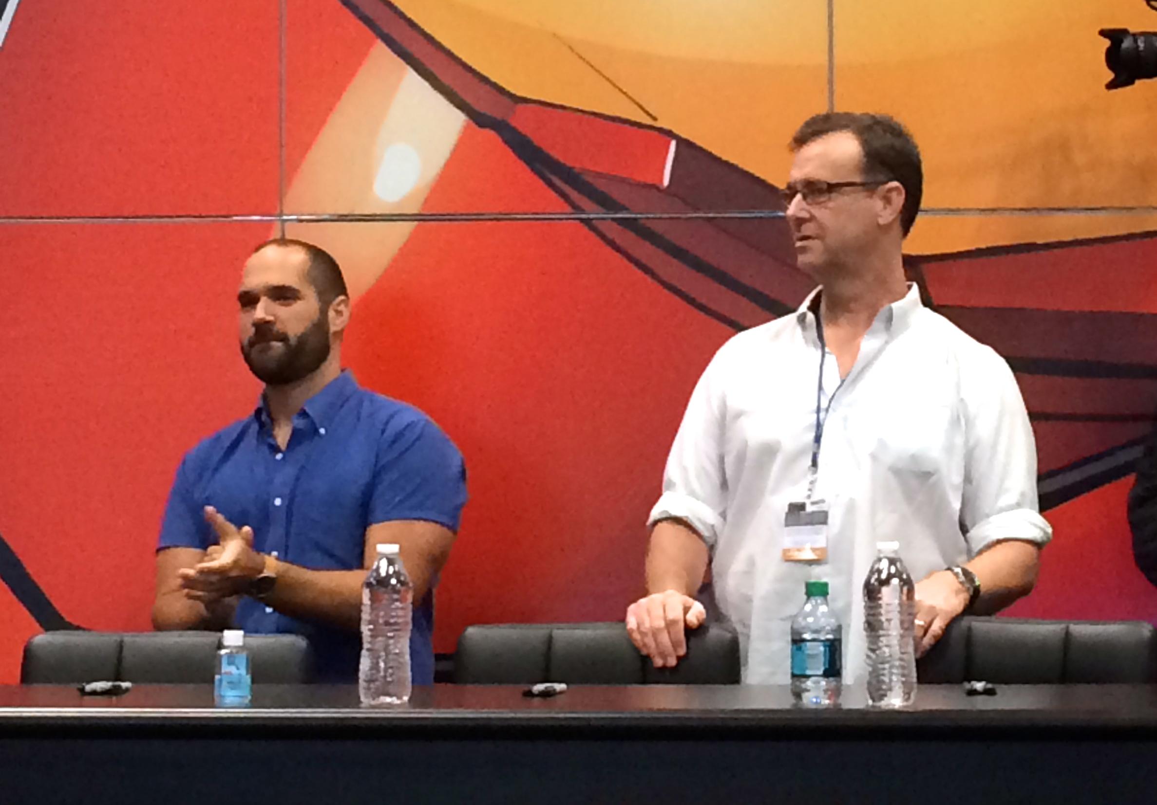 Marco Ramierz and Doug Petrie at a signing for Daredevil at the Marvel Comics booth at New York Comic Con 2015.